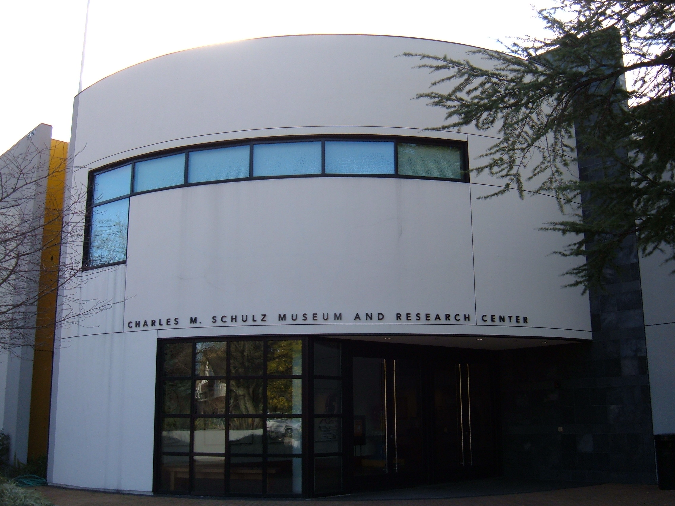 The front of the Charles M. Schulz Museum and Research Center in Santa Rosa California.